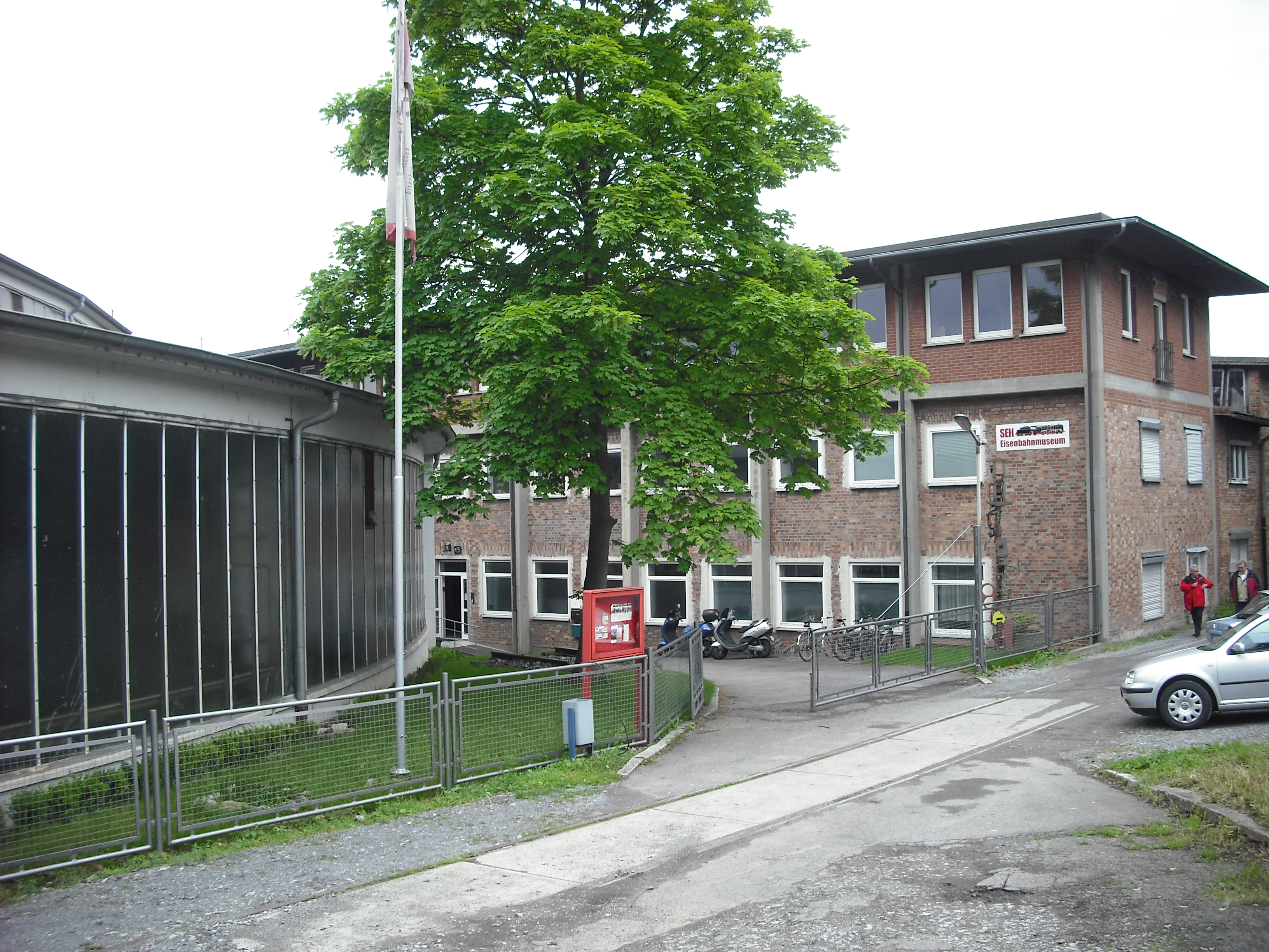 Entrance area of Süddeutsches Eisenbahnmuseum Heilbronn